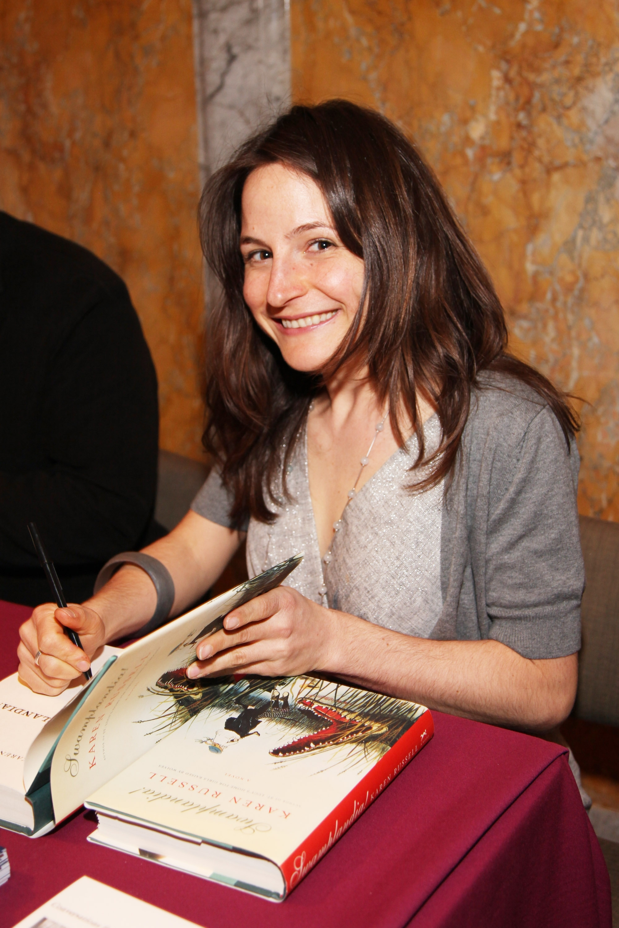 Author photo